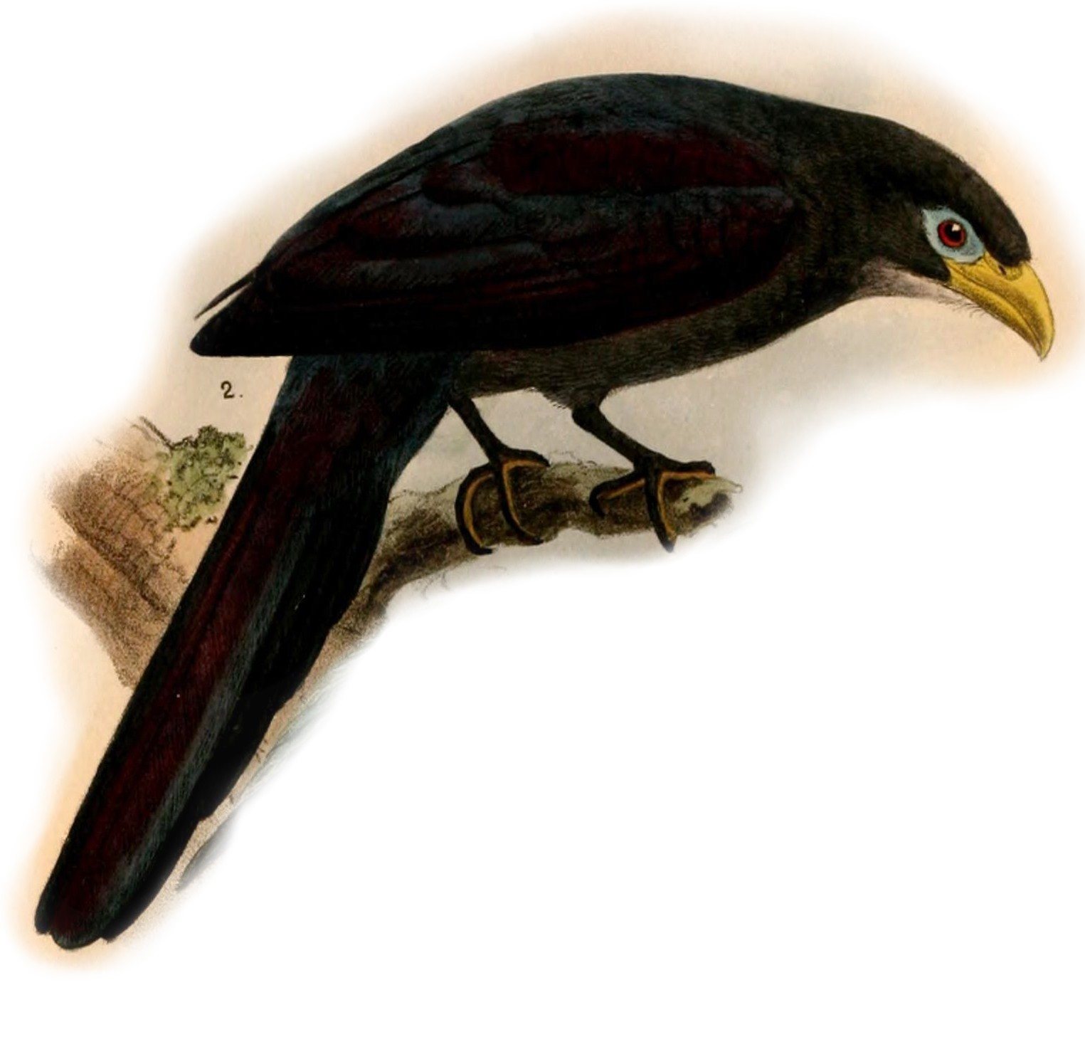 « Ceuthmochares aereus » = Ceuthmochares aereus (Chattering Yellowbill)